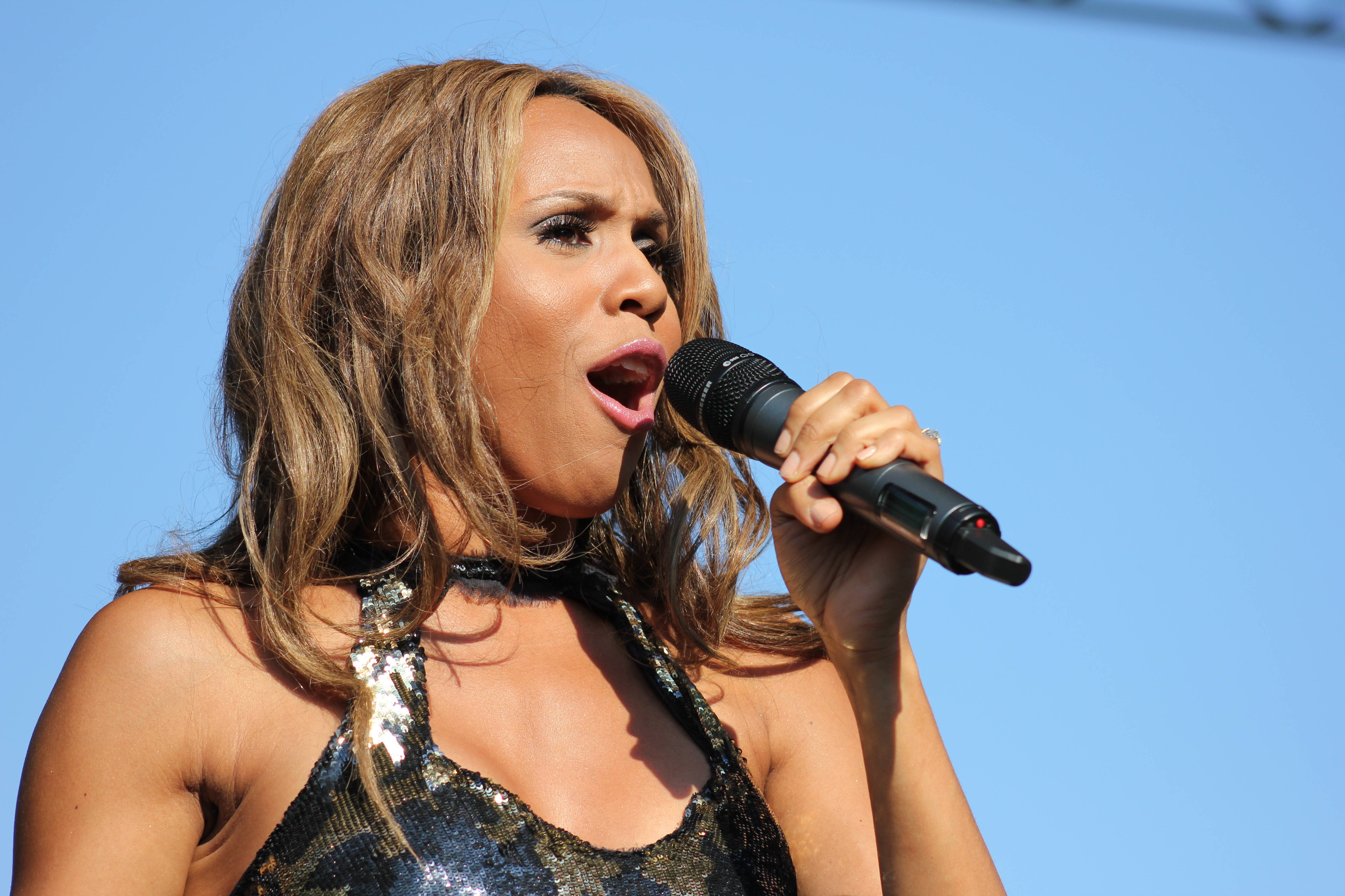 DEBORAH COX performance during 37th Capital Pride Festival at the Main Stage on Pennyslvania Avenue and 3rd Street, NW, Washington DC on Sunday afternoon, 10 June 2012 by Elvert Barnes Photography Visit DEBORAH COX website at Visit Capital Pride website at Visit Elvert Barnes 37th Capital Pride 2012 / Washington DC docu-project at